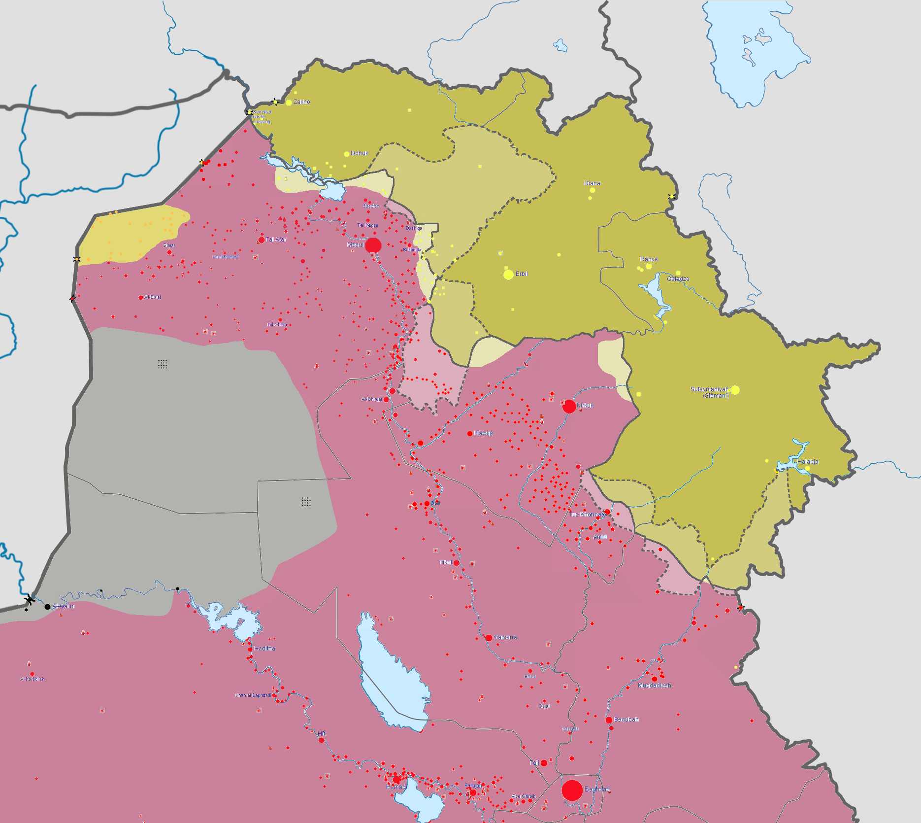 Map of the areas of control during the 2017 Iraqi–Kurdish conflict De facto border (largely disputed) Other disputed borders Controlled by the Iraqi Government: Unrecognised areas of the Kurdistan Region Rest of Iraq Controlled by the Kurdistan Regional Government: Recognised areas of the Kurdistan Region Unrecognised areas of the Kurdistan Region Area outside the Kurdistan Region Controlled by the Sinjar Alliance Controlled by ISIS